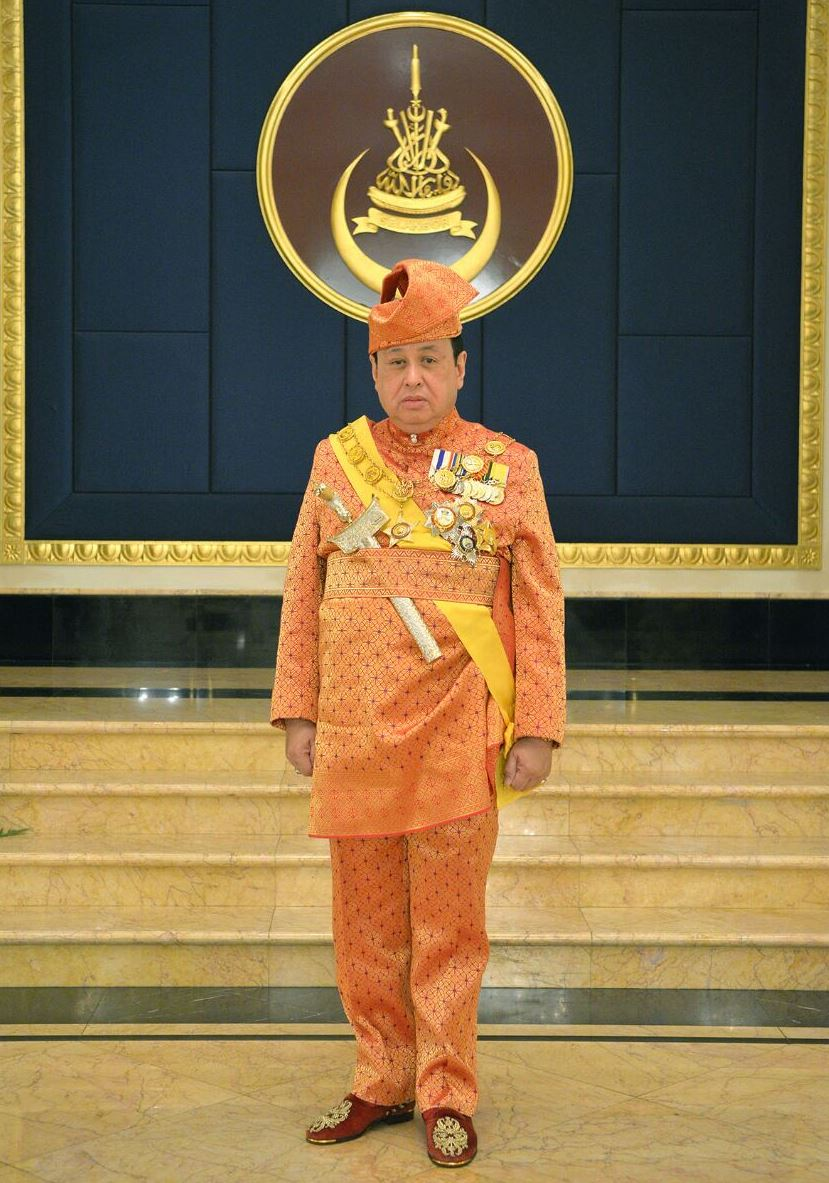 YAM Tengku Laksamana Selangor